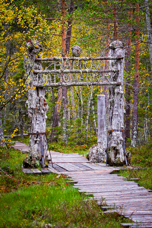 Entrance of the old Hamra national park.